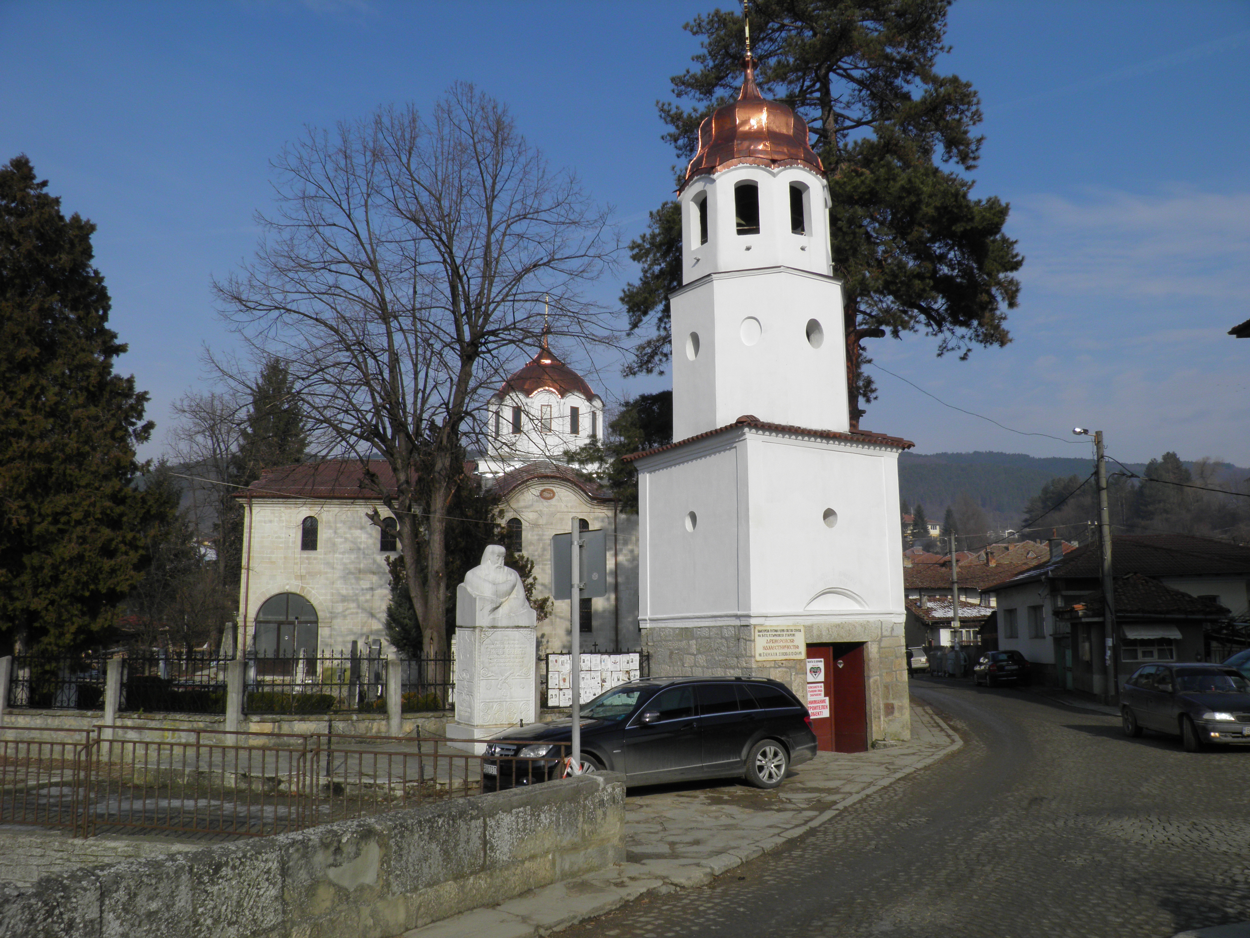 Orthodox Church Nativity of Mary,Elena,Bulgaria 2019